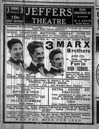 1911 newspaper advertisement for the Marx Brothers appearance in Saginaw, Michigan.